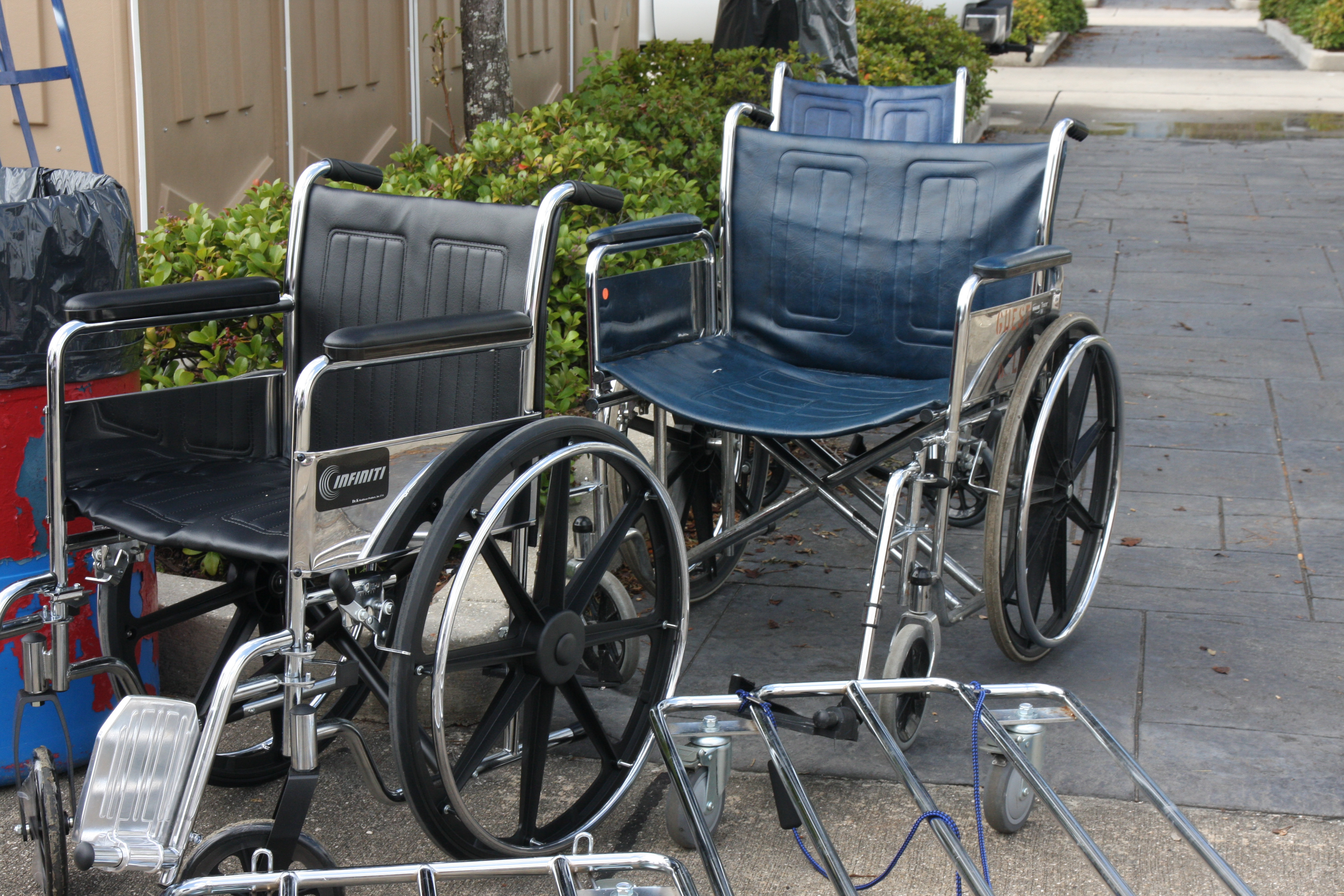 New Orleans, LA, September 5, 2008 -- Wheel chairs are lined up waiting for evacuees who might need assistance. Jacinta Quesada/FEMA